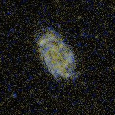 NGC 10 galaxy on GALEX sky survey